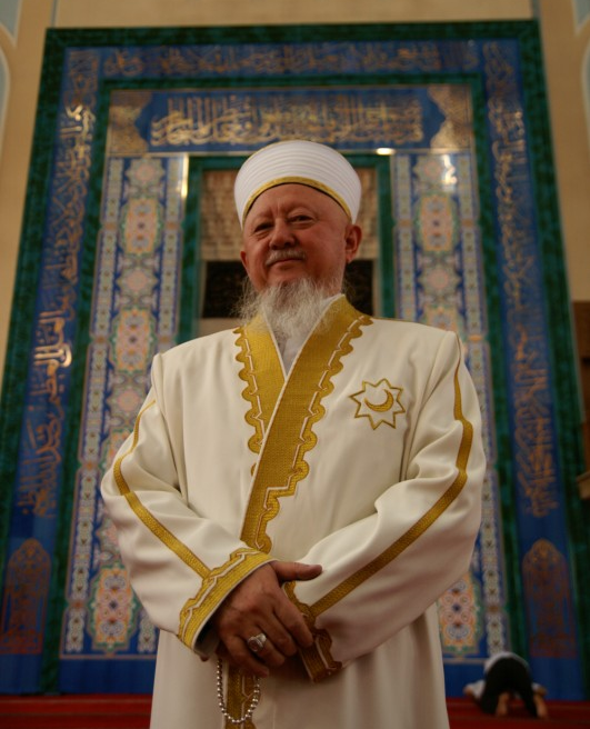 Sheikh Absattar Derbisali, the Grand Mufti of Kazakhstan, standing in Astana's Grand Mosque. Built with Qatari money, the mosque shows how religion is back in vogue in Kazakhstan post independence. Sheikh Derbisali told me how Kazakhs remain extremely wary of Saudi funding and Wahabism which, he said, did not fit in with Kazakhstan's traditionally tolerant, liberal brand of Islam.